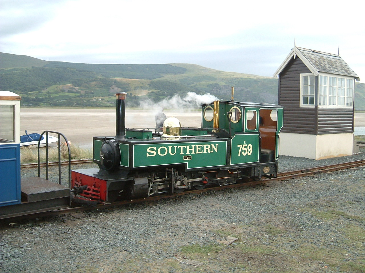 Fairbourne Railway Locomotive Yeo, Modeled on the Lynton and Barnstaple Railway locomotive Credit: Will Smith